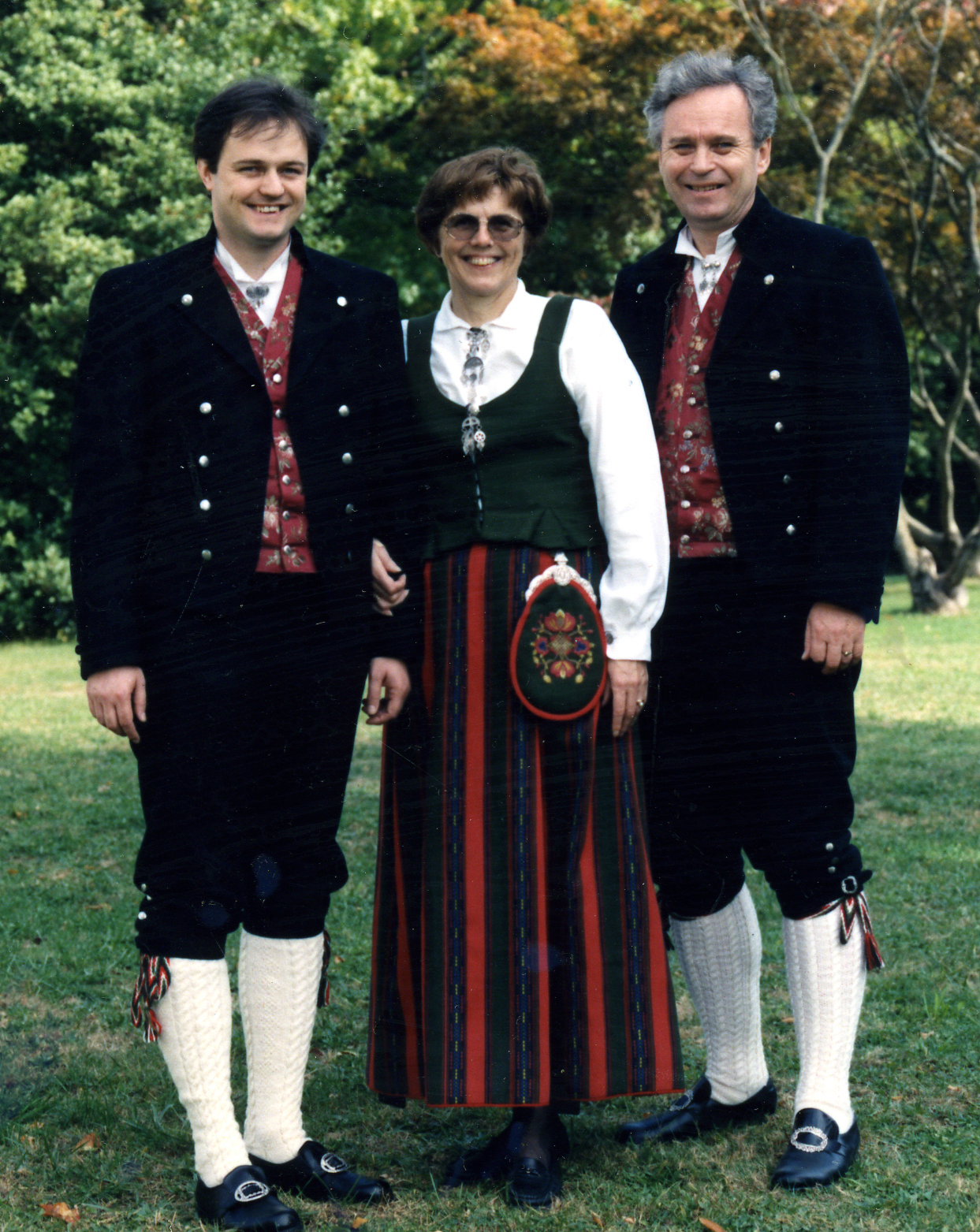 Men's bunad from Nord-Gudbrandsdalen and women's from Oppdal, in Norway. Photography by Leif Knutsen.